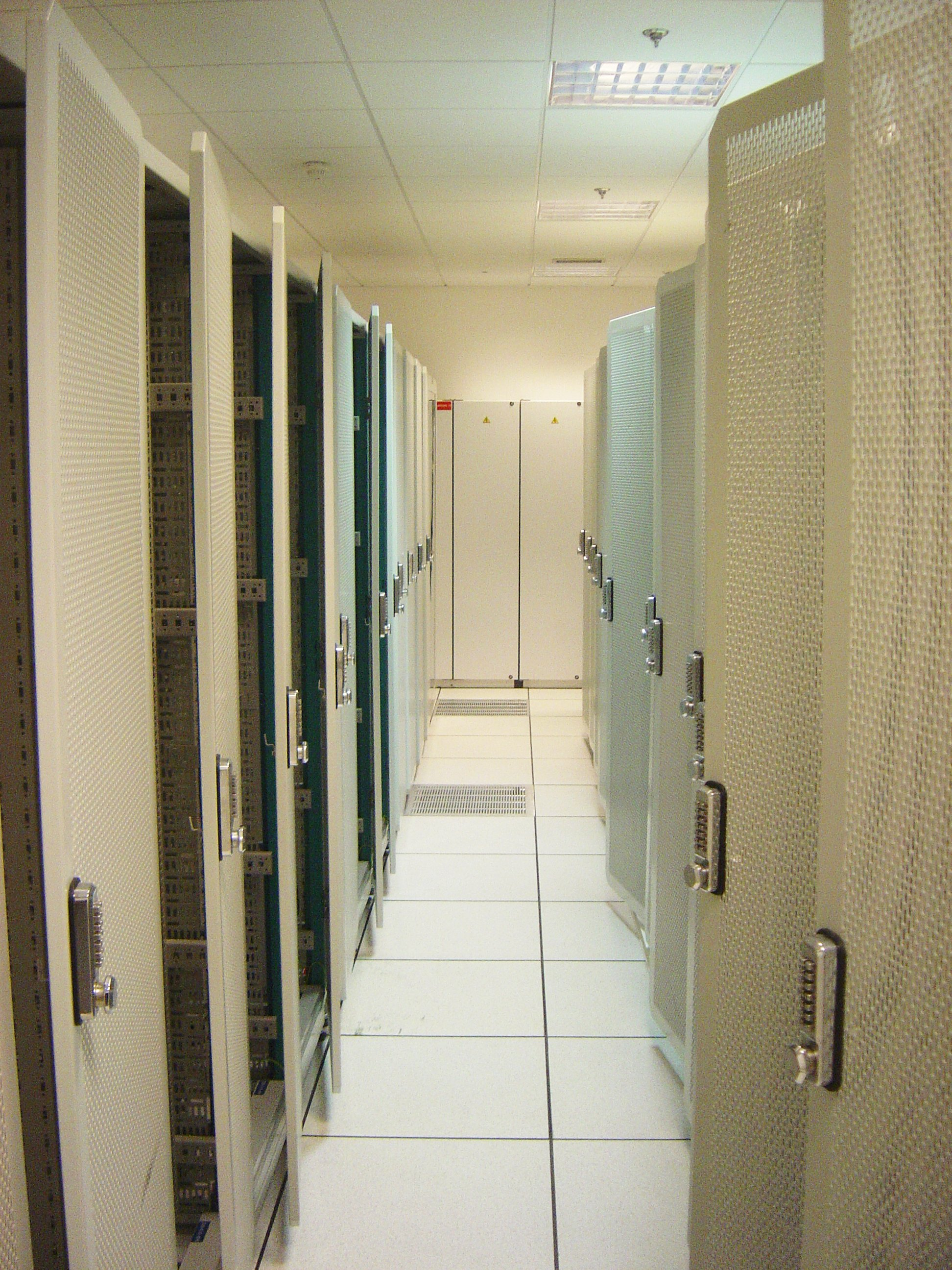 The Telecity colocation centre in Aubervilliers, near Paris, France